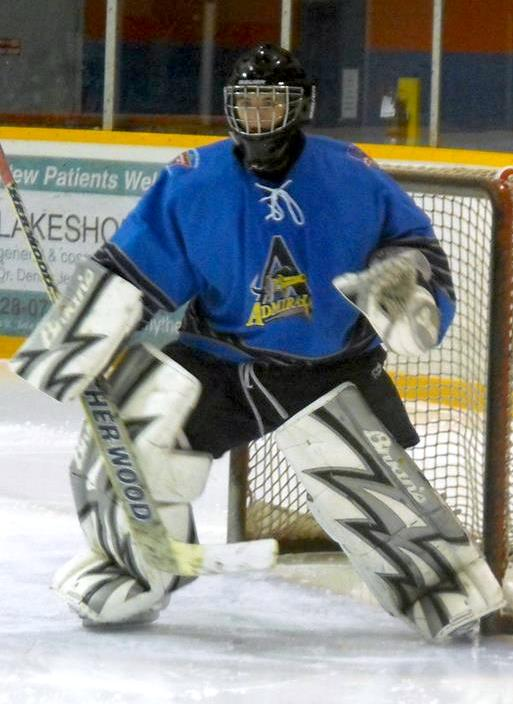 These images of GLJHL action are taken by Devan Mighton.